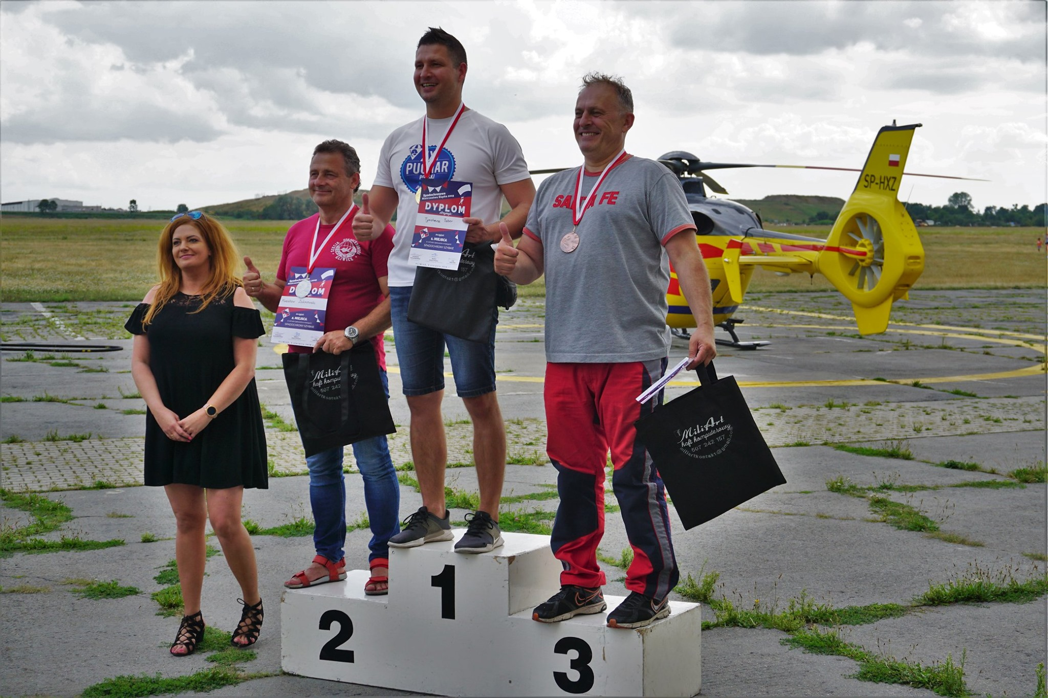 Skydiving Championships of Silesia in 2019